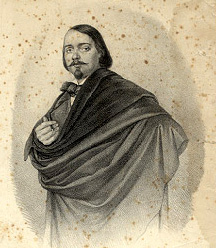 Detail from an autographed portrait of Carlo Baucardé (1825-1883)